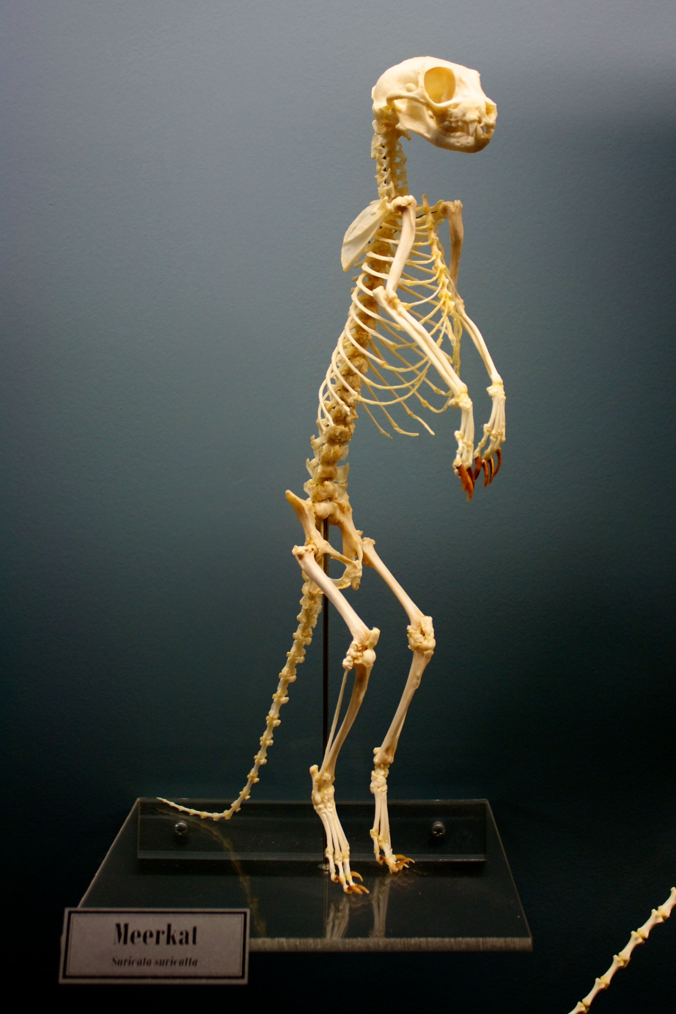 Skeleton of a Meerkat at the Osteology Museum of Oklahoma